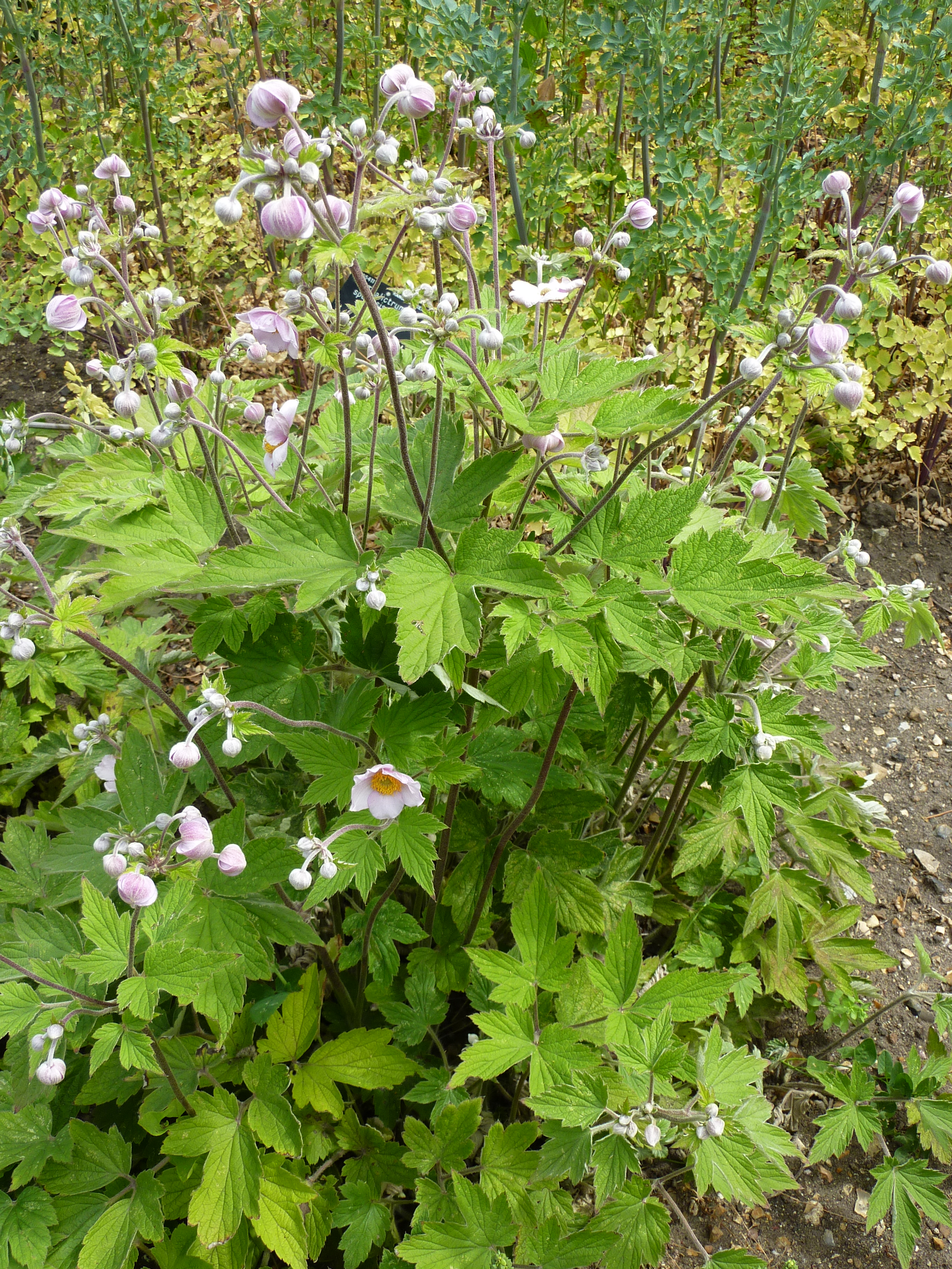 Taken in the Cambridge University Botanic Garden